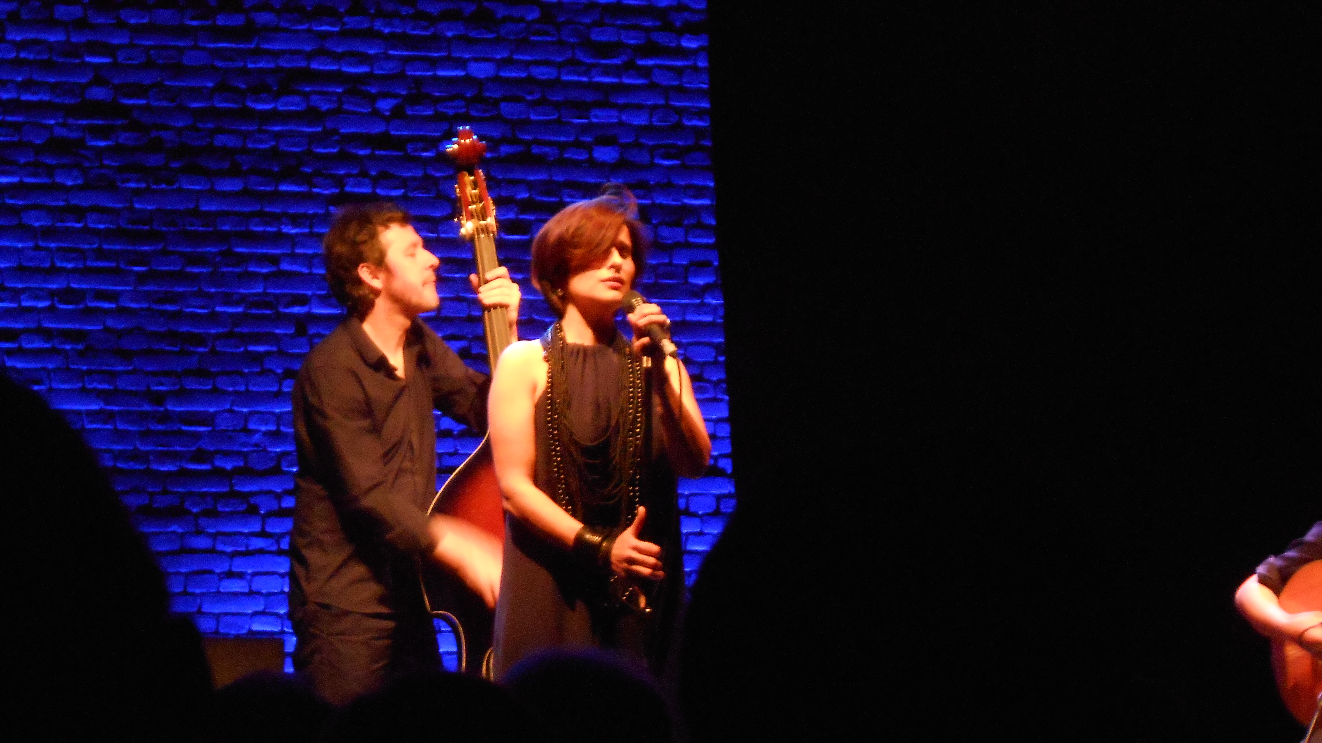 Cristina Branco singing in the Christuskirche church in Bochum, Germany, 26th march of 2014